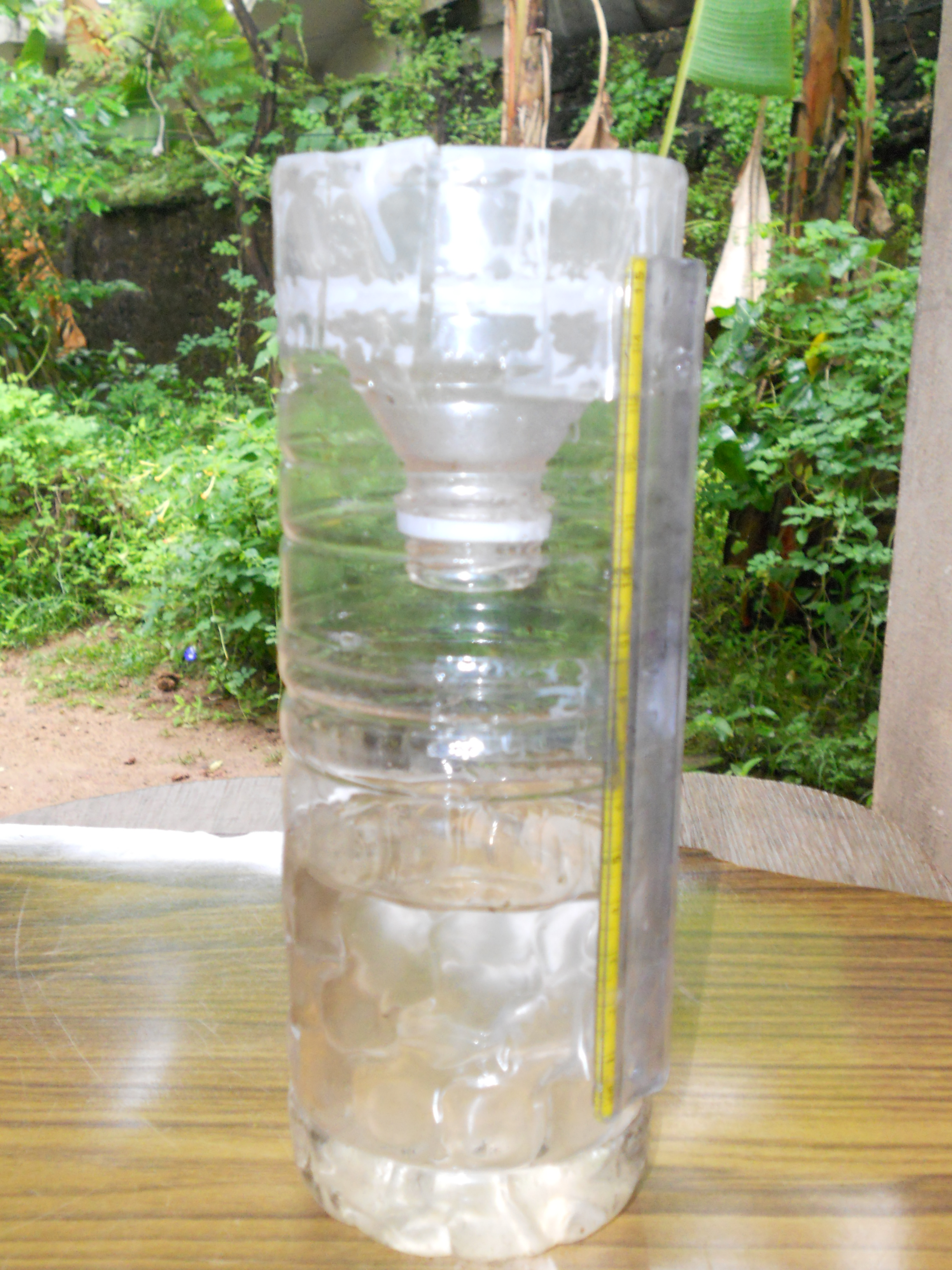 Rainguage made by students